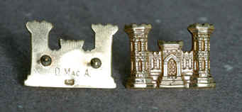 Photograph of Gen McArthur's Gold Castles